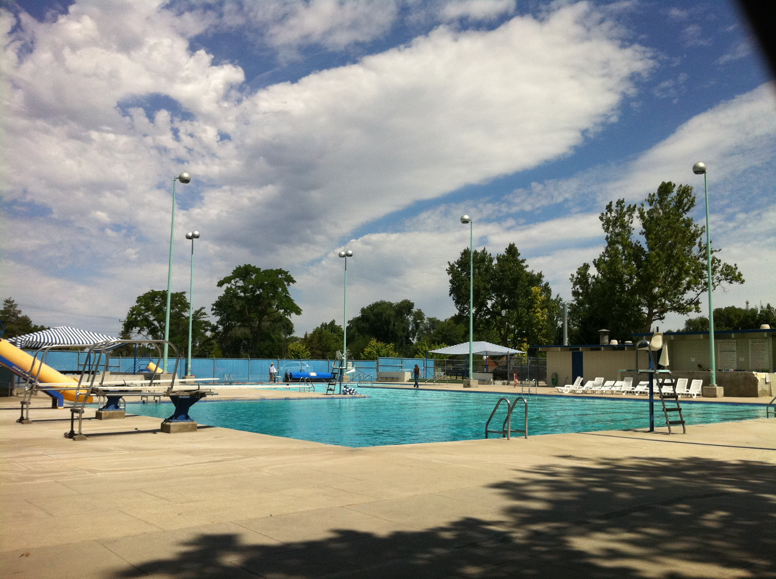 I took this photo this past summer in Caldwell, Idaho. Photo taken summer of 2011 by user: tdferro